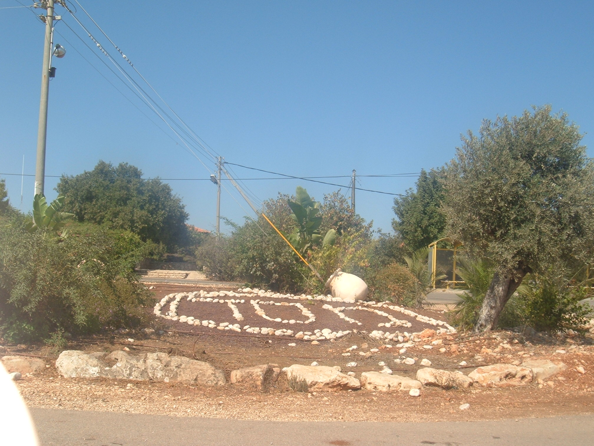 entrance to Moshav Massad, Israel